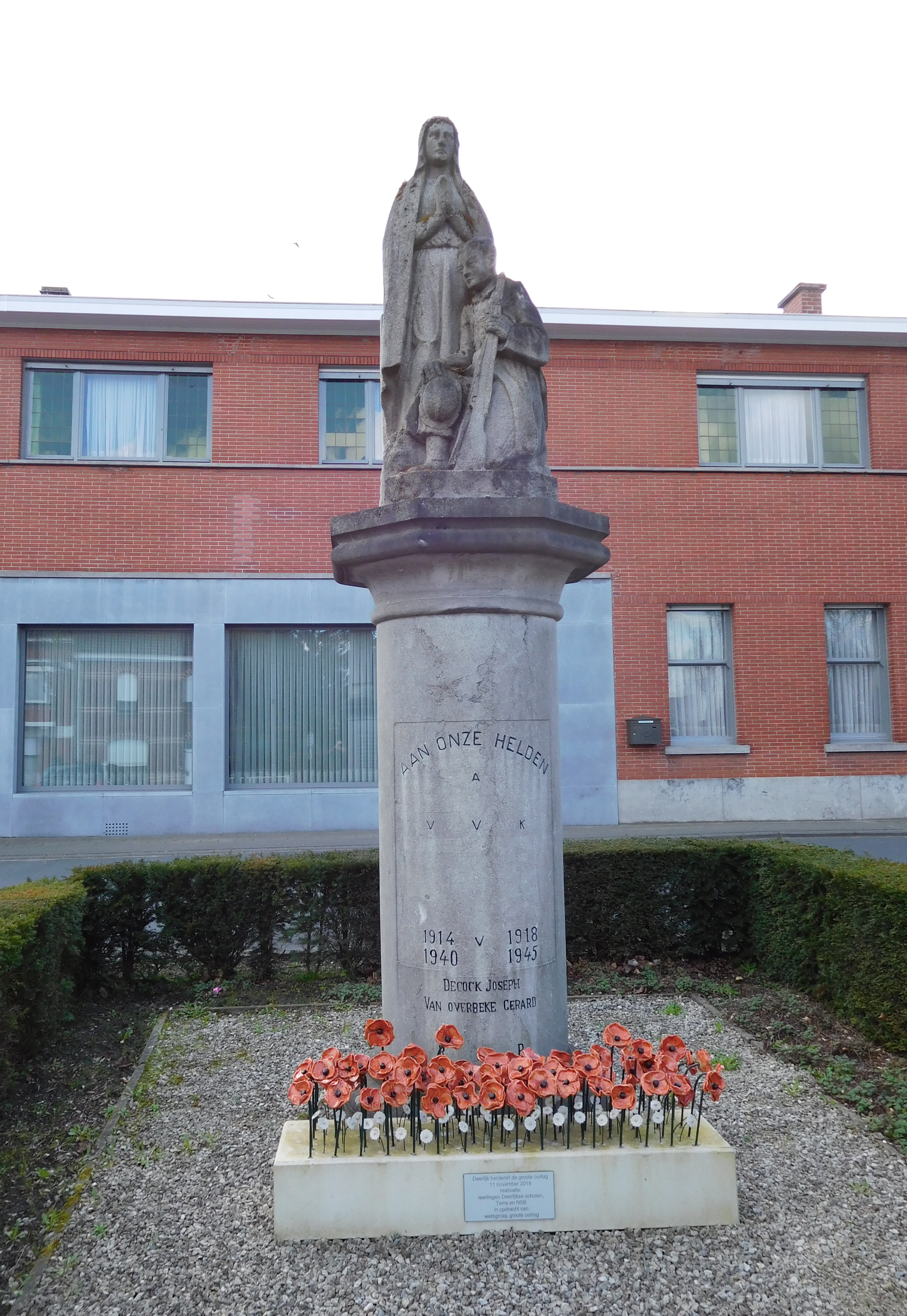 War memorial in Sint-Lodewijk